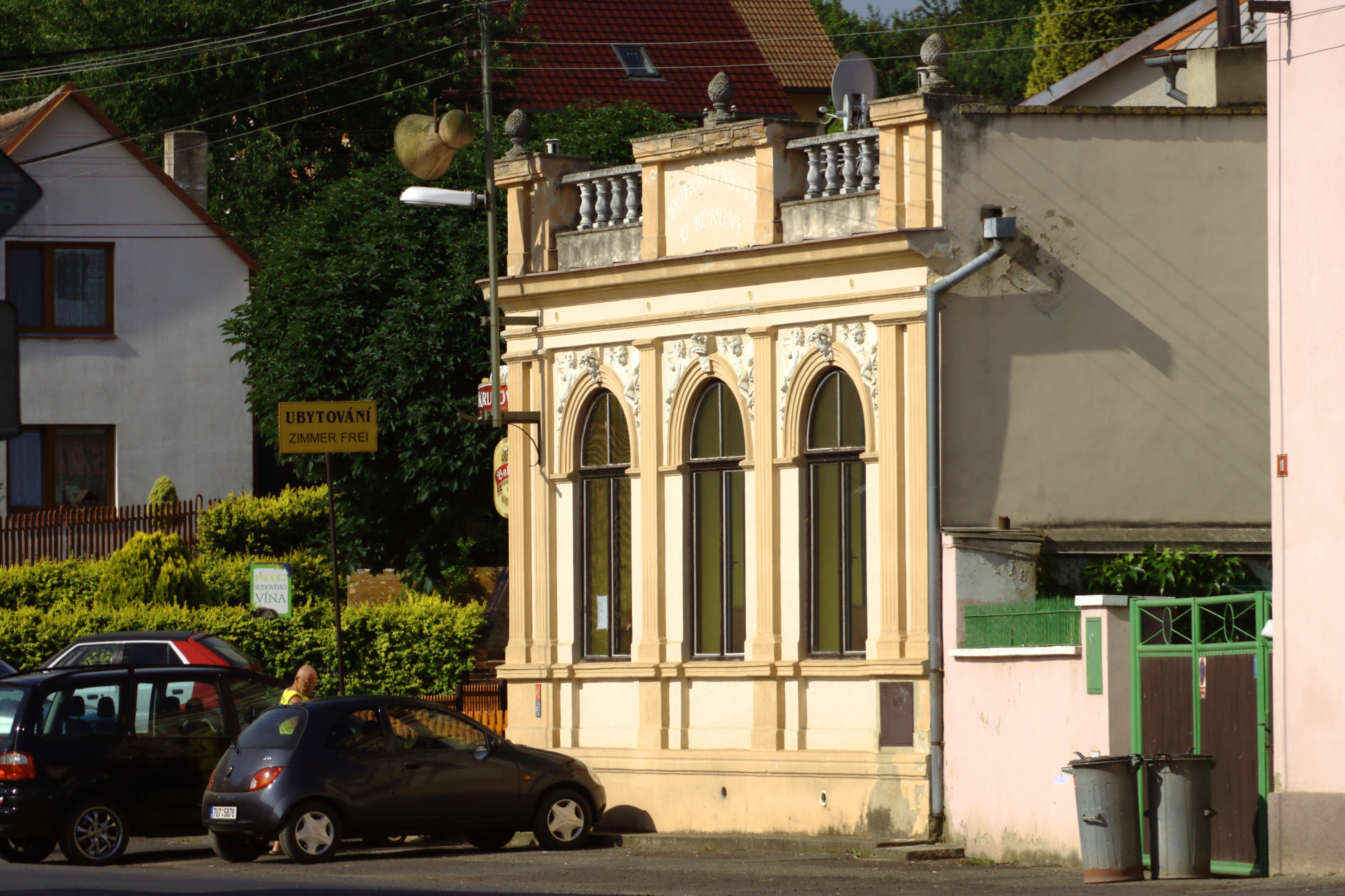 A pub in the town of Prackovice nad Labem, Ústí Region, CZ